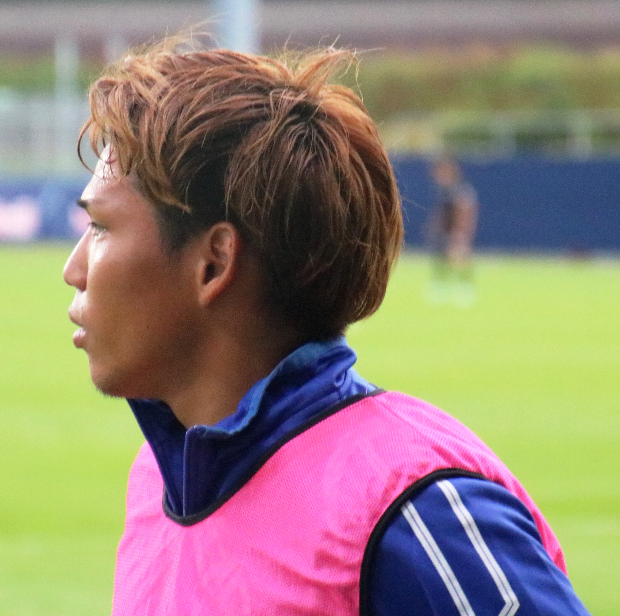 league match Austria 2nd league